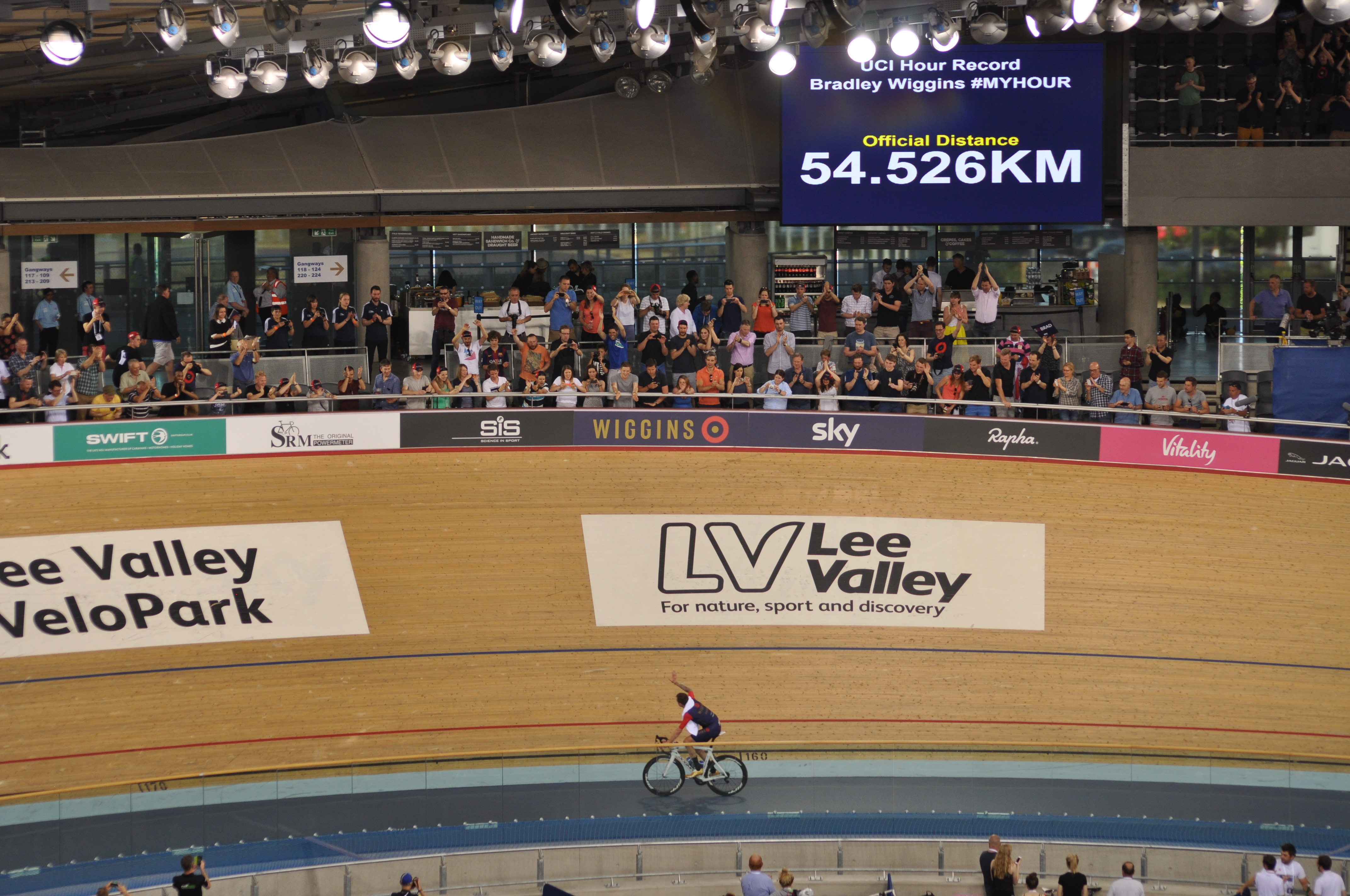 Bradley Wiggins Hour Record 07.06.15 Lee Valley Velodrome London